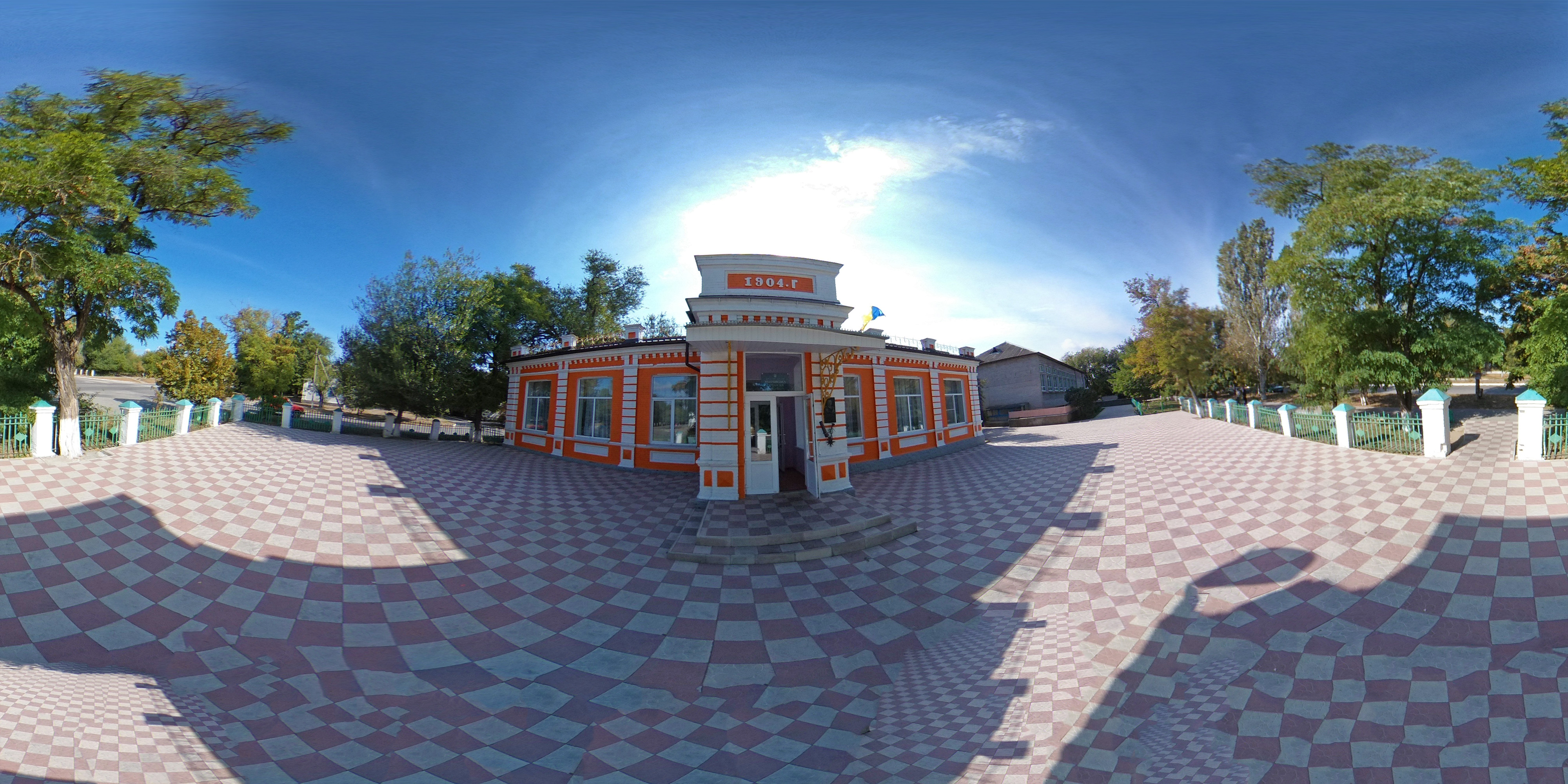 Building Akimovka school number 1 1904.